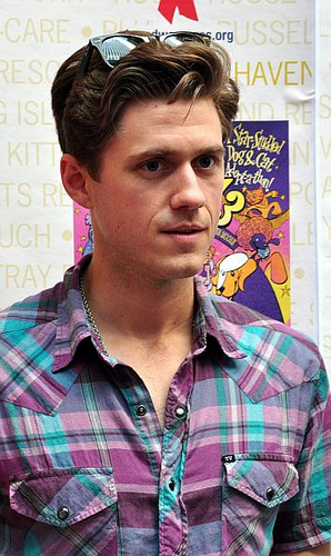 Actor Aaron Tveit attends 13th Annual Broadway Barks Benefit on July 9, 2011 at Shubert Alley in New York City. (Photo © Nick Stepowyj)